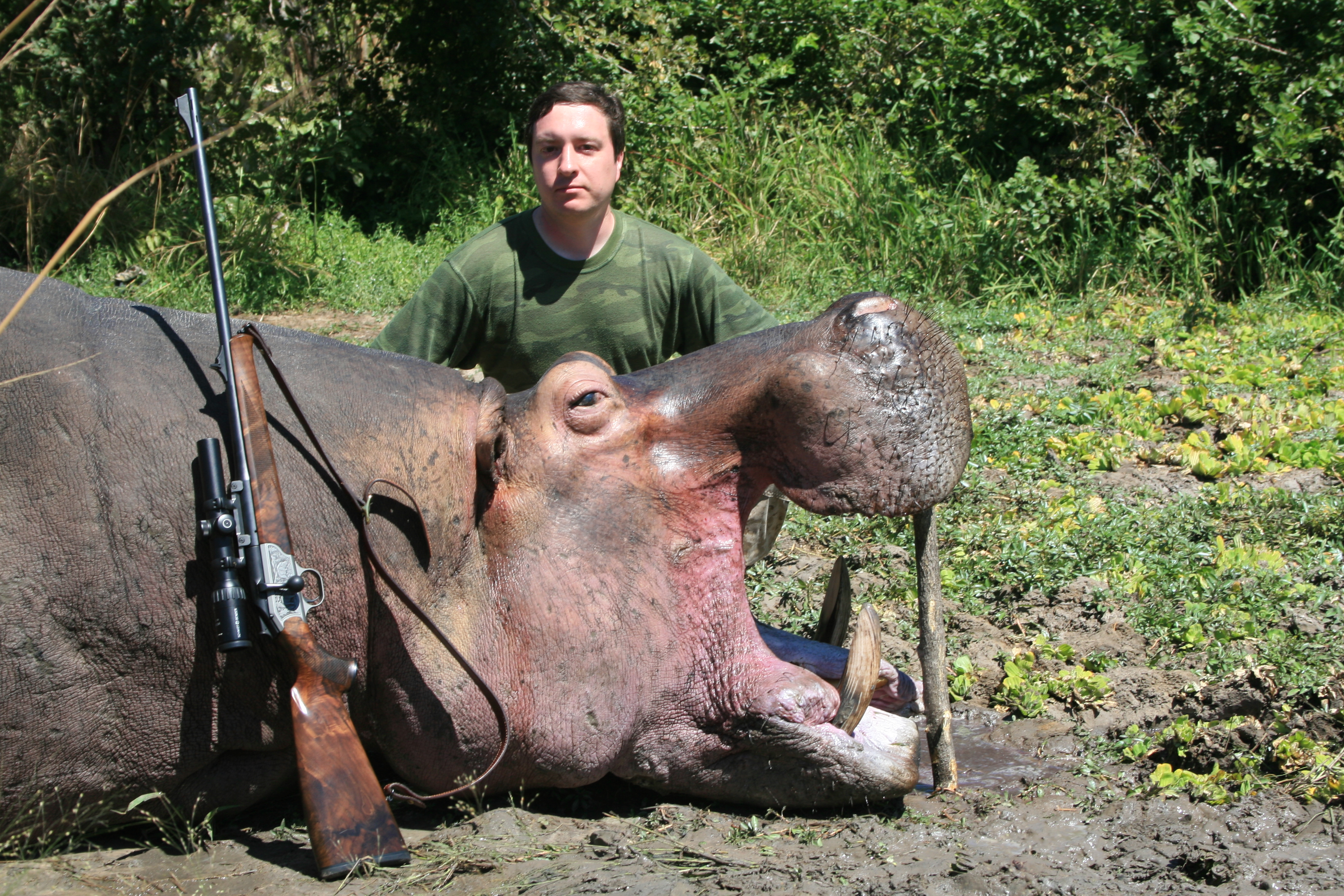 Trophy Hunter With Hippopotamus Prize (Zambia, May 2010)